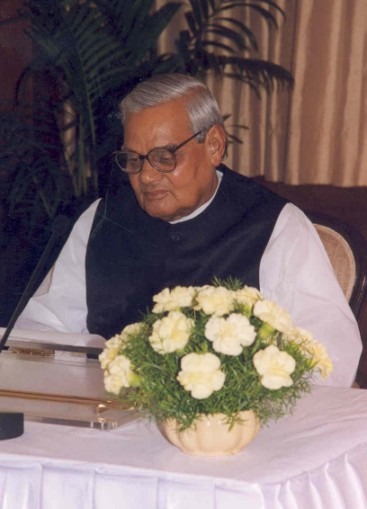 Library of Congress. specified as PD, from release.